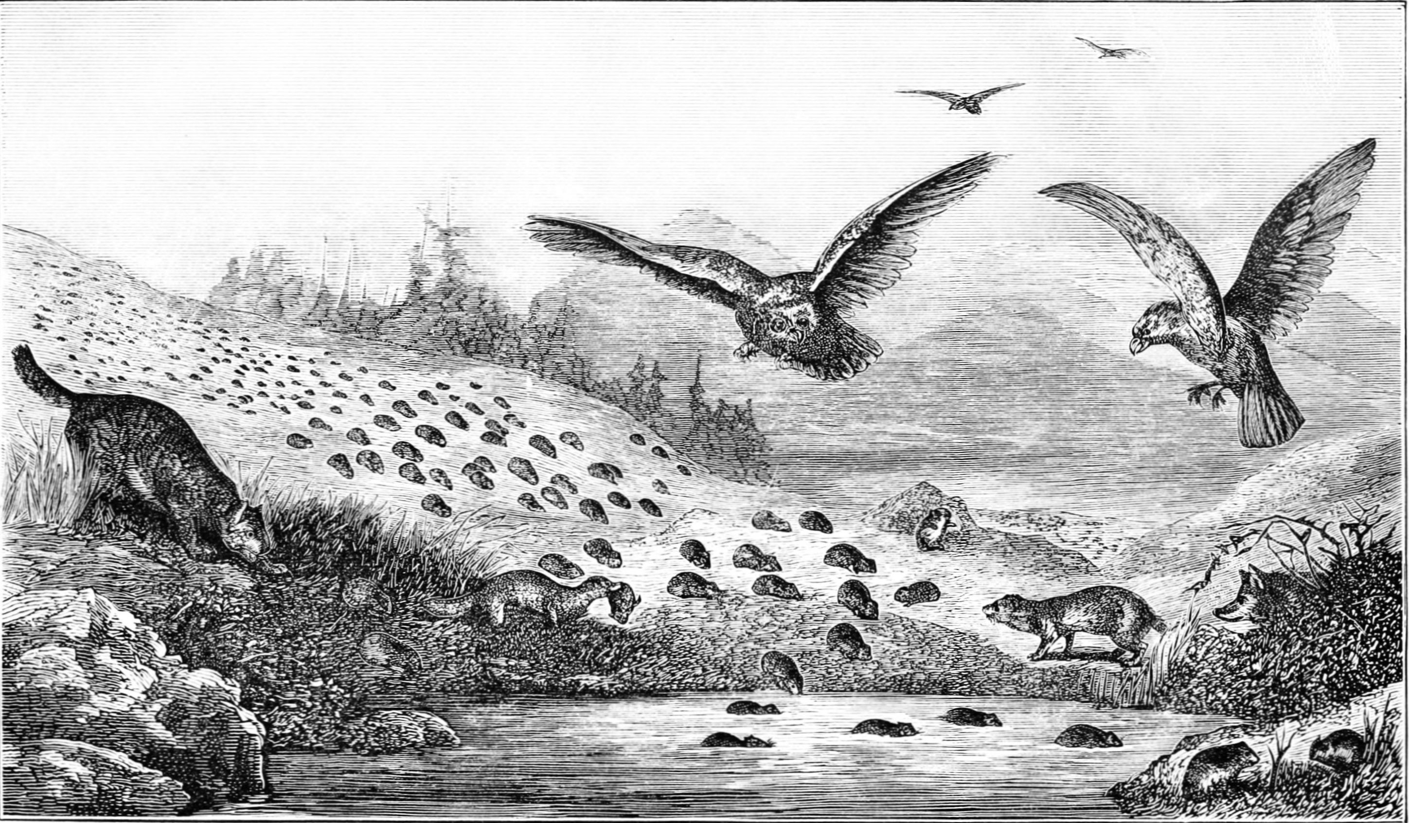 Lemmings in migration